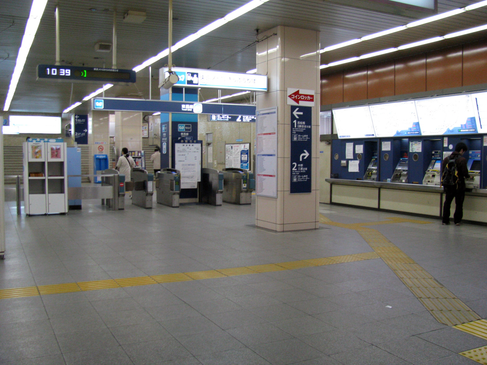 Concourse of Baraki-Nakayama Station on Tokyo Metro Tozai-Line